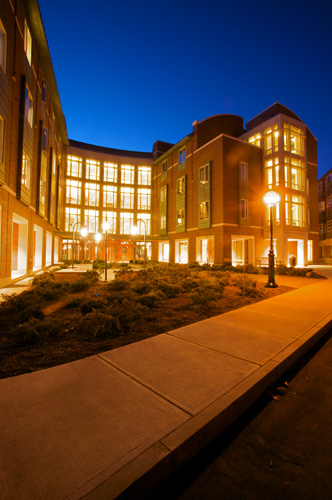 New Halls